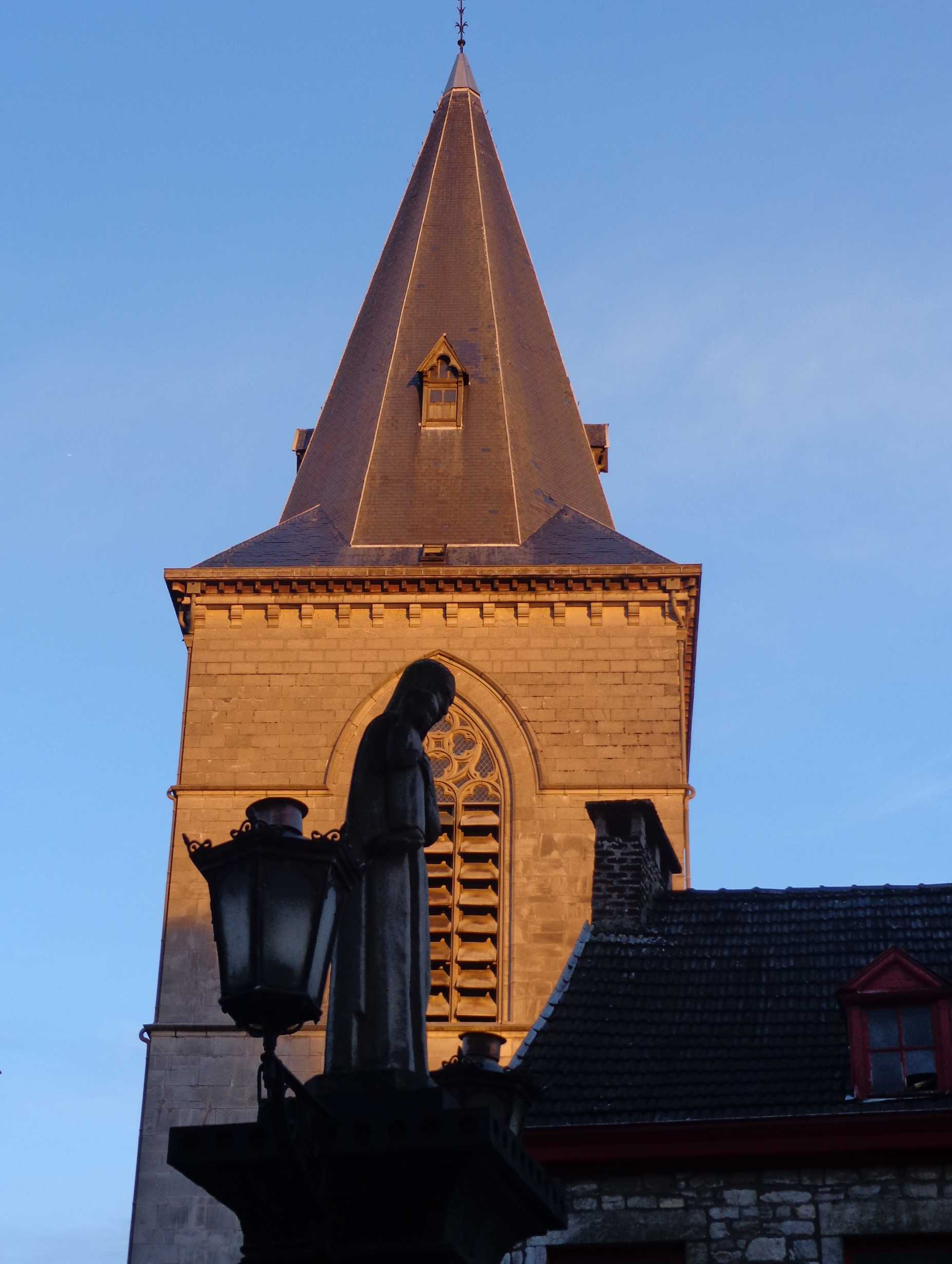 Eglise Saint-Georges de Limbourg depuis la Place Saint-Georges à la tombée du soir